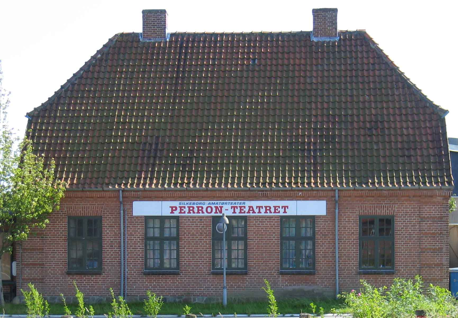 Perronteateret i Lysbro, Denmark